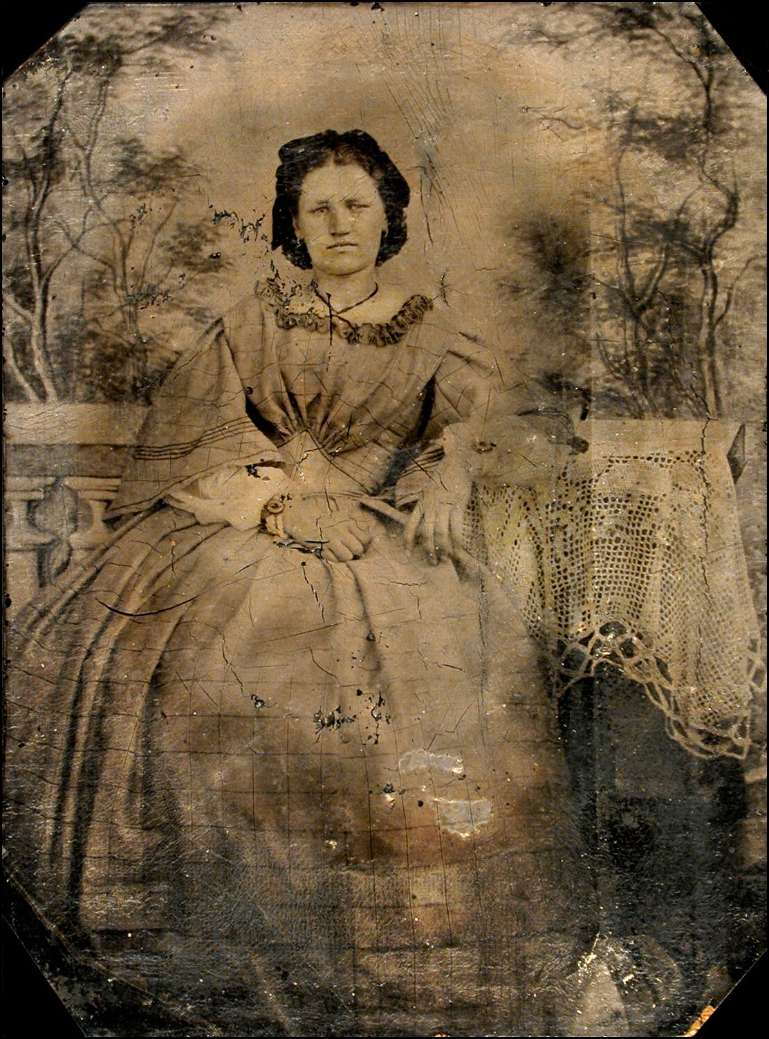 The Pannotype process was only used for a very short time from 1853 until about 1860. After the exposure, the collodiumlayer was removed from the glass negative under acidified water and transferred to a black oilcloth, linen or leather. Like Daguerreotypes and Ambrotypes, they were encased in ornate hinged boxes. In contrast to the Ambrotype, the Pannotype was unbreakable, but extremely sensitive. Therefore only few Pannotypes have survived until today making them very rare. Typically for Pannotypes is the cracked or sometimes wrinkled surface of the picture. This portrait of an unidentified woman is on black oilcloth and had been removed from its original box. Unidentified photographer.